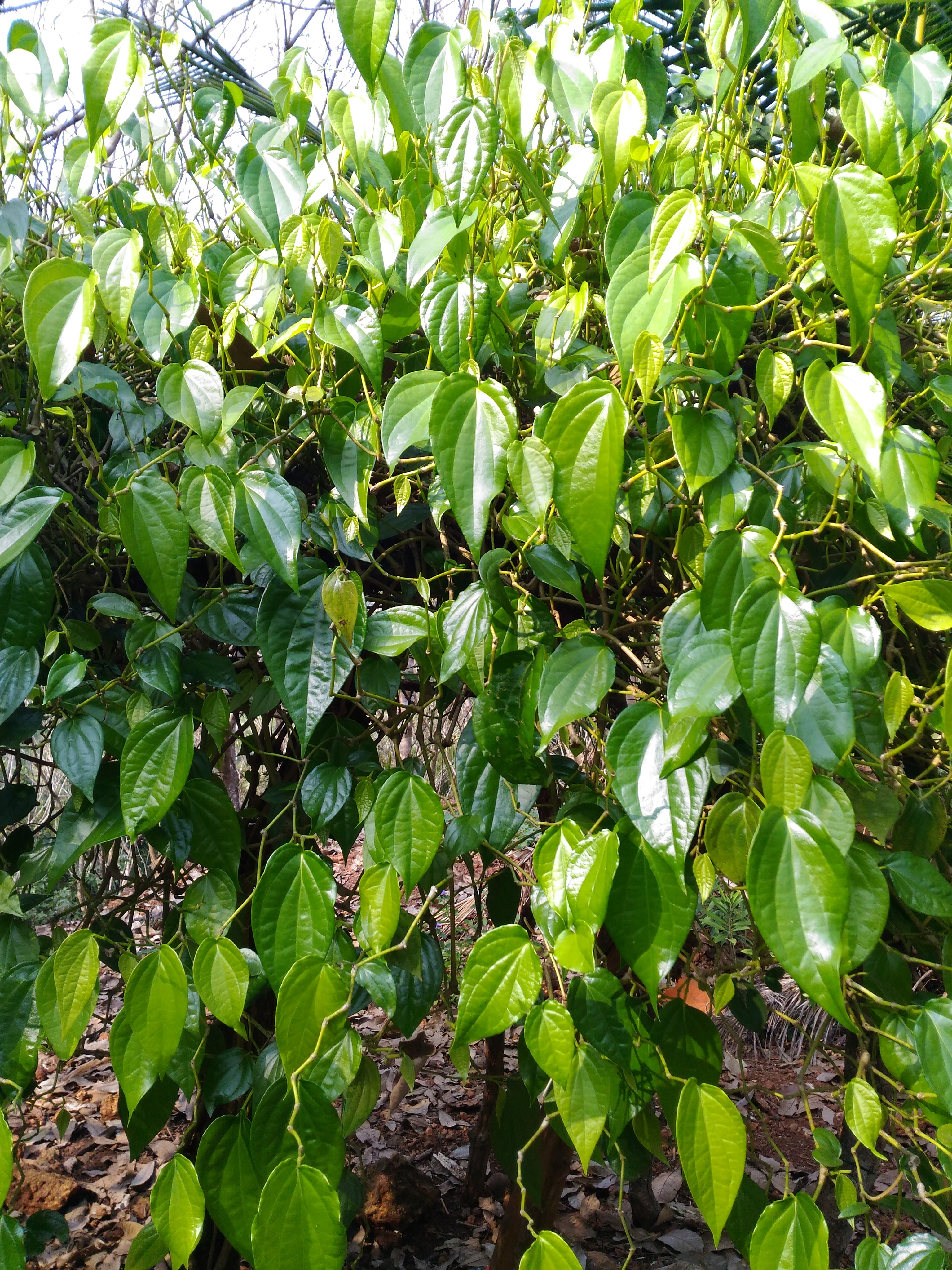 Betal leaves